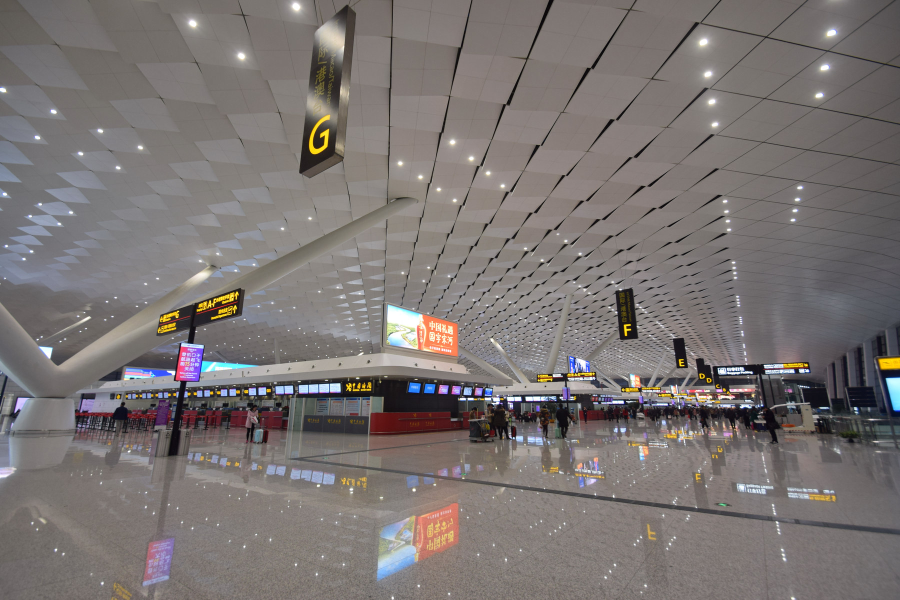 Departure Concourse of Terminal 2, Zhengzhou Xinzheng International Airport